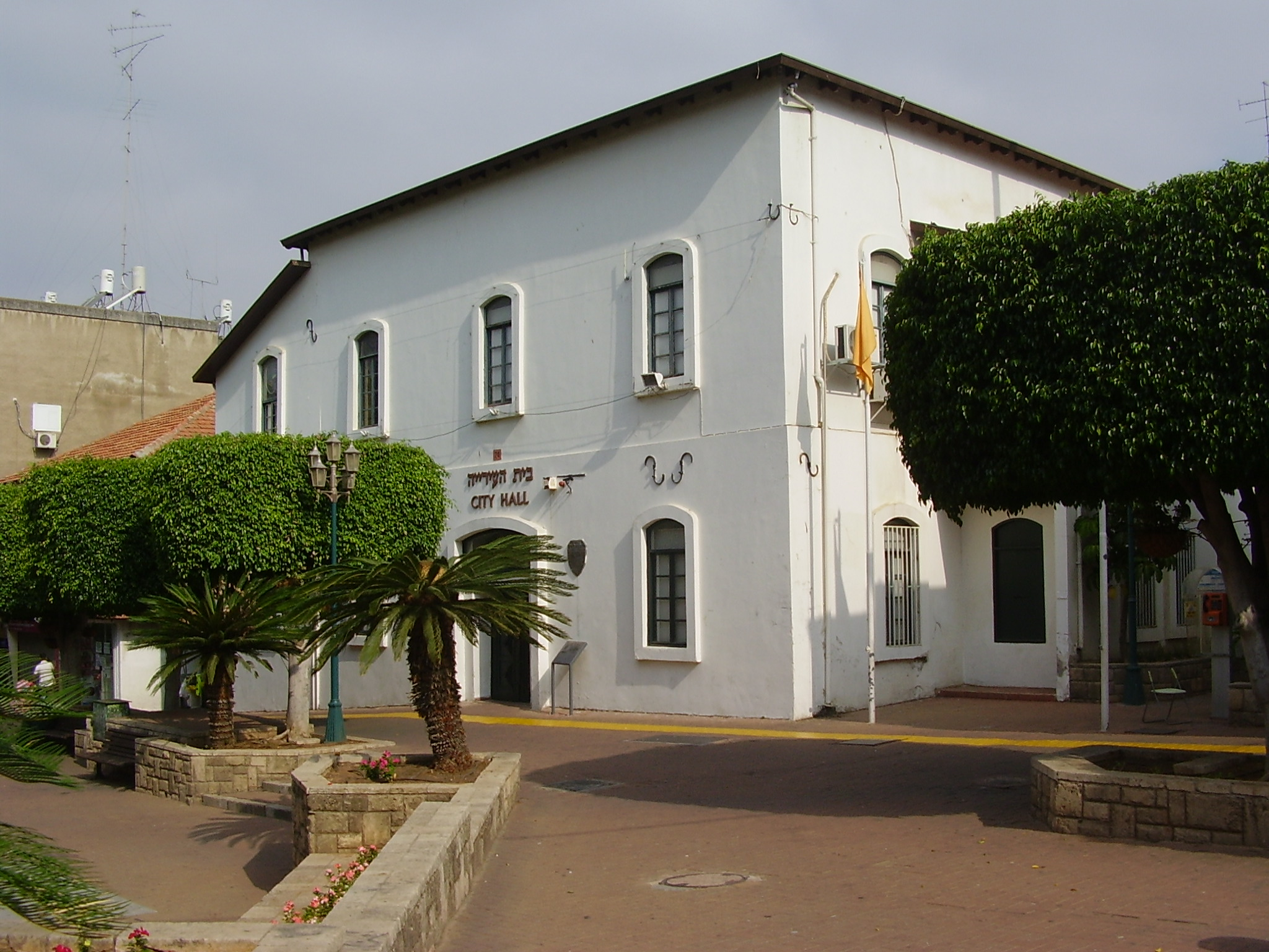 the old city hall in rishon lezion